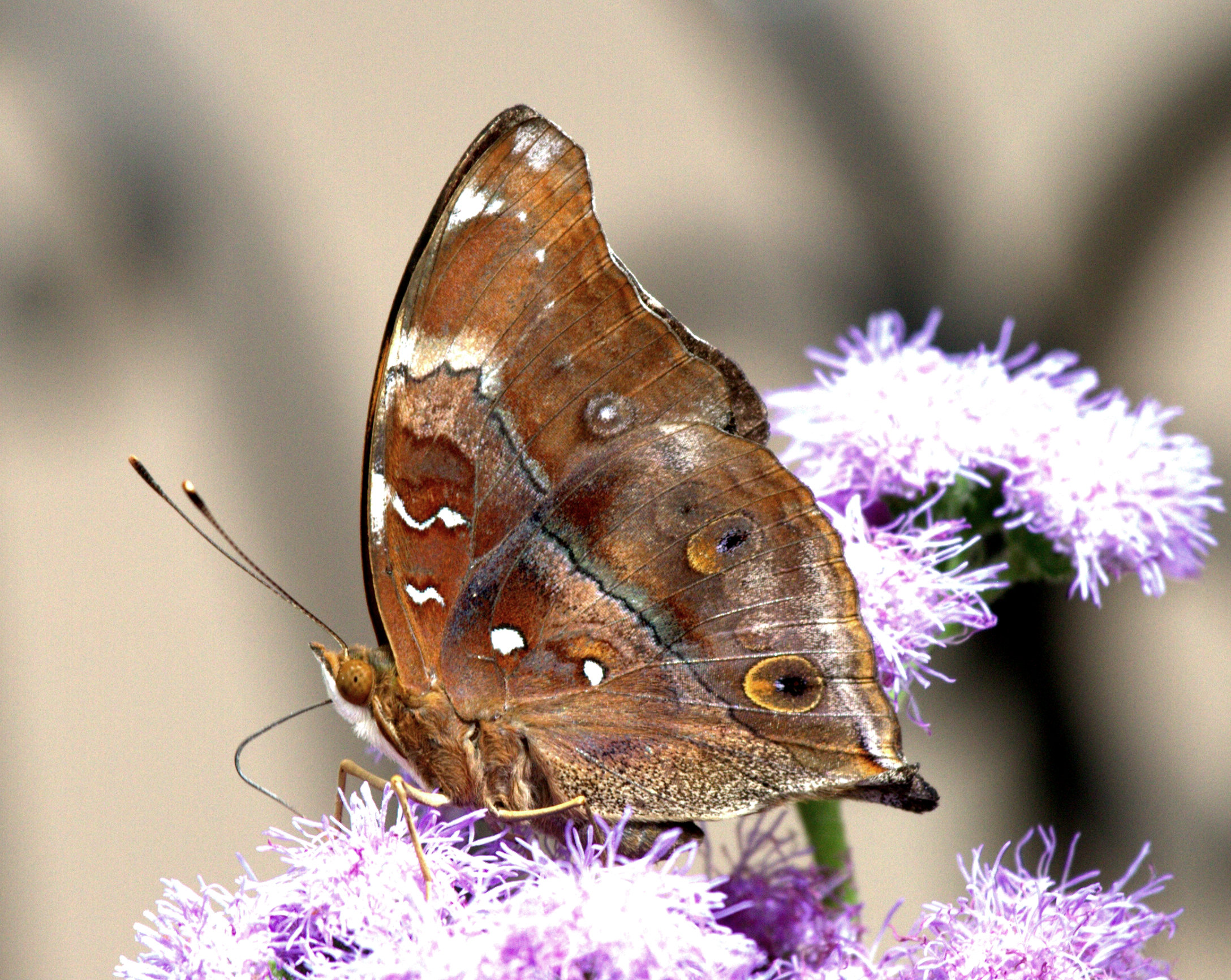 Autumn leaf - Doleschallia bisaltide. Taken at Krohn Conservatory.